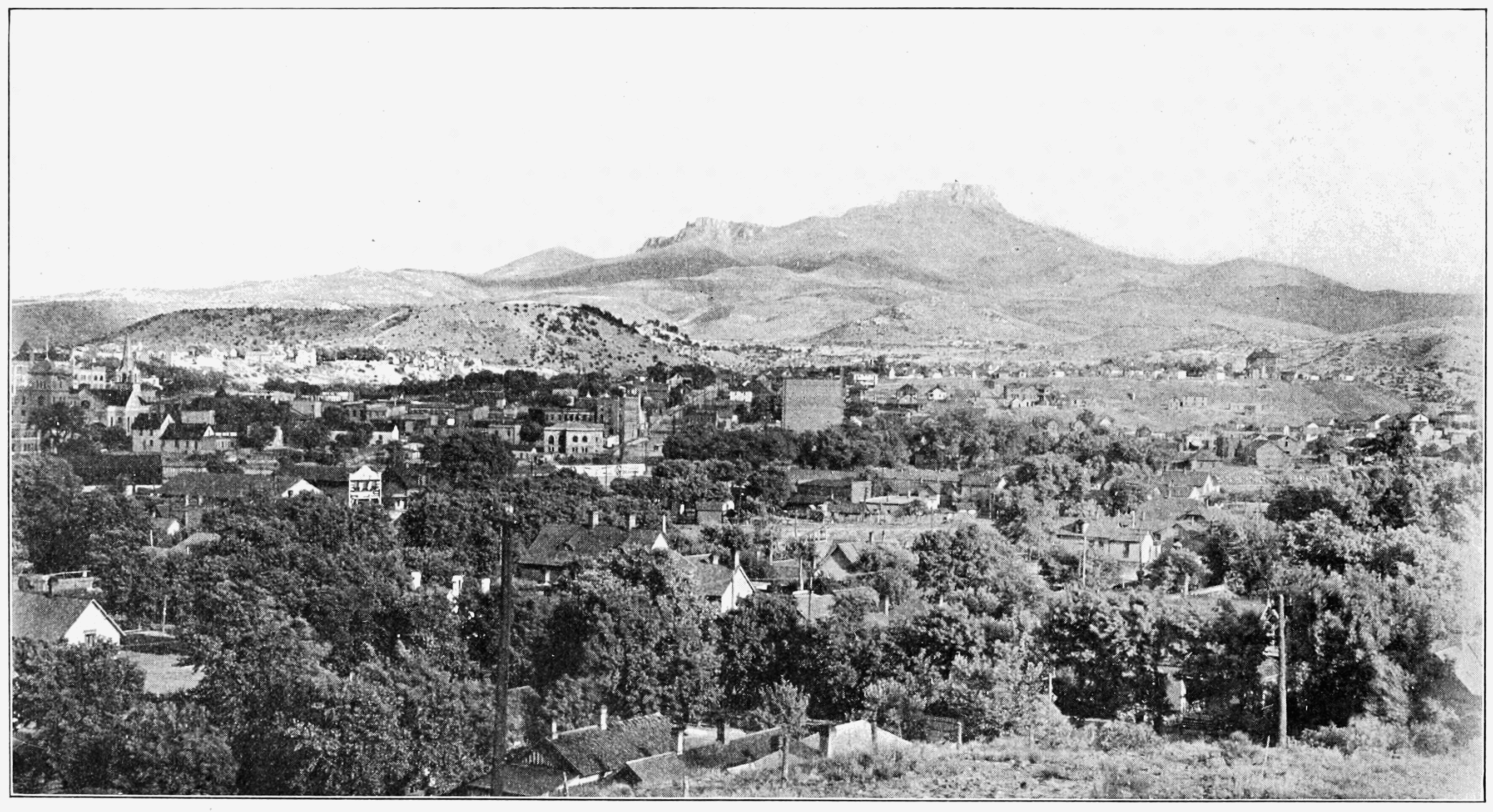 Fisher peak a spur of the Mesa de Maya (Raton Mesa), Colorado. It rises nearly 4,000 feet (1,200 m) above the town in the foreground.